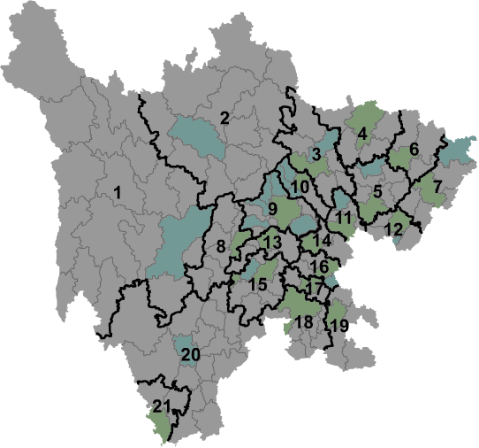 Map of Sichuan Province highlighting Prefecture-level divisions .